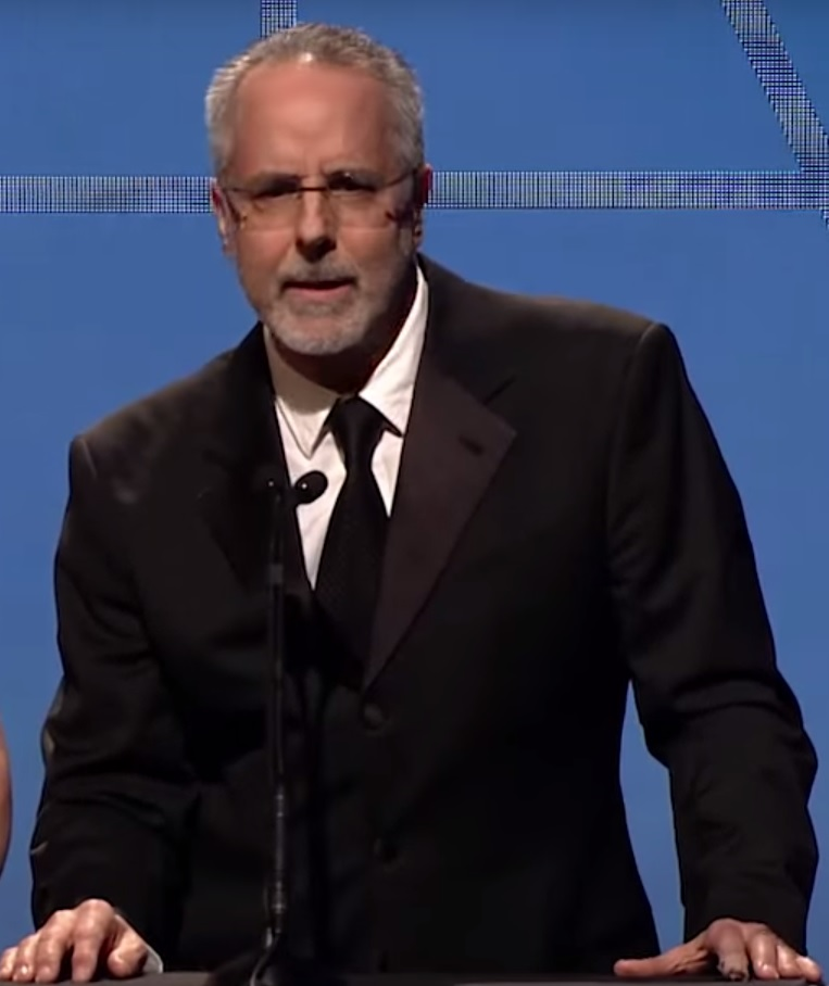 American director, writer and producer Jon Avnet presenting the Art Directors Guild award for Fantasy Feature Film to Production Designer Andy Nicholson for Gravity.